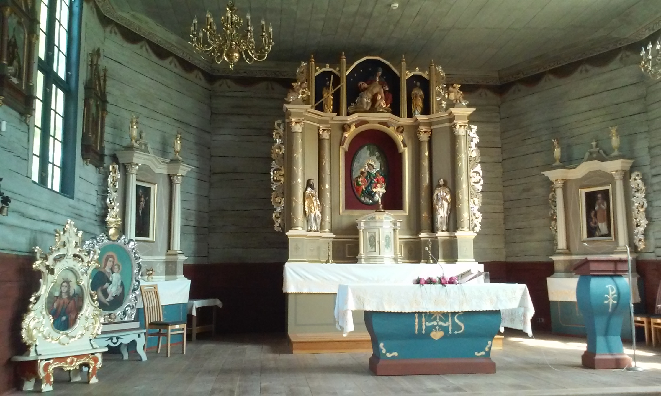 Saint Martin old church in Sierakowice (Pomerania), the high altar in the chancel.